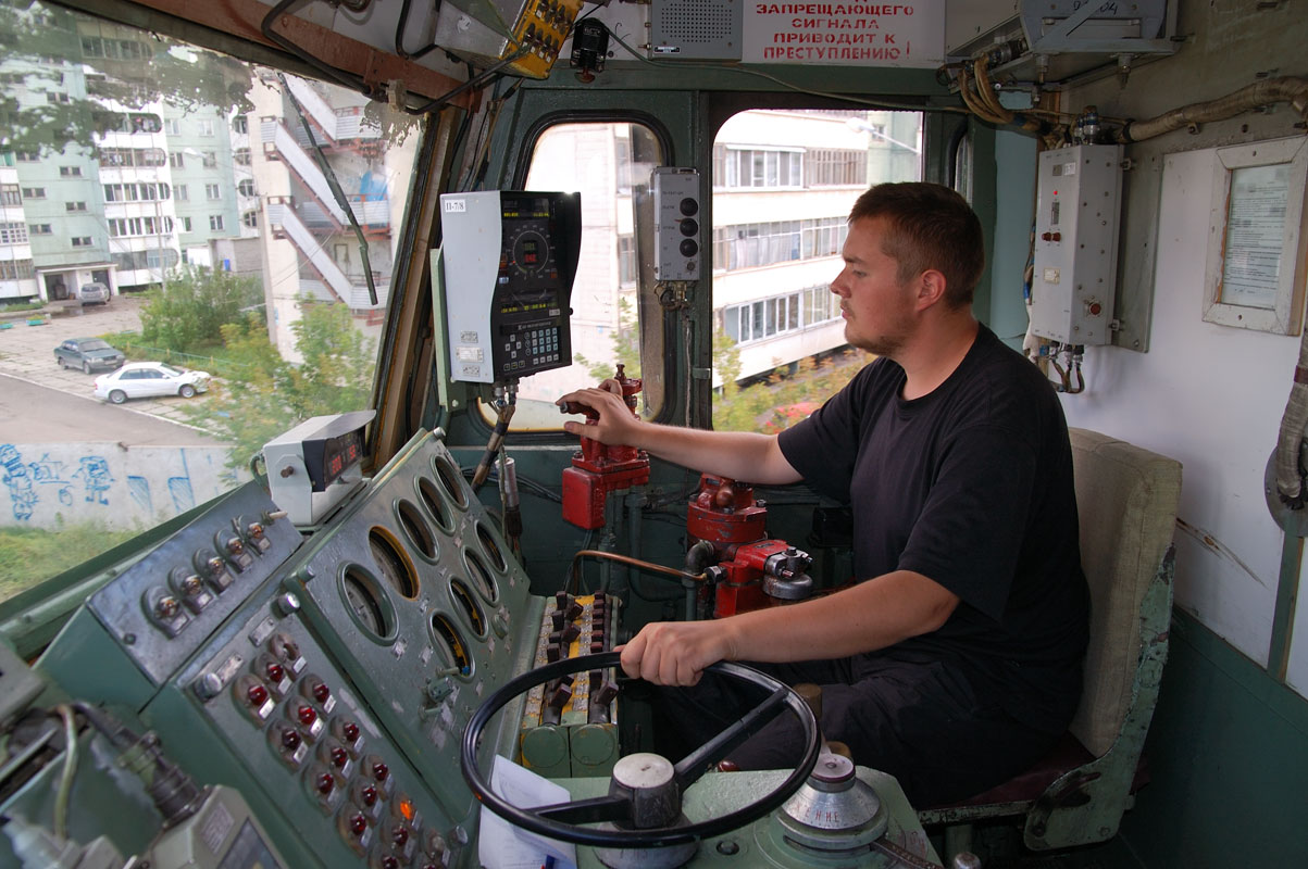 Author operates a freight electric locomotive VL80R